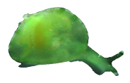 photo of an unidentified species of Juliidae.